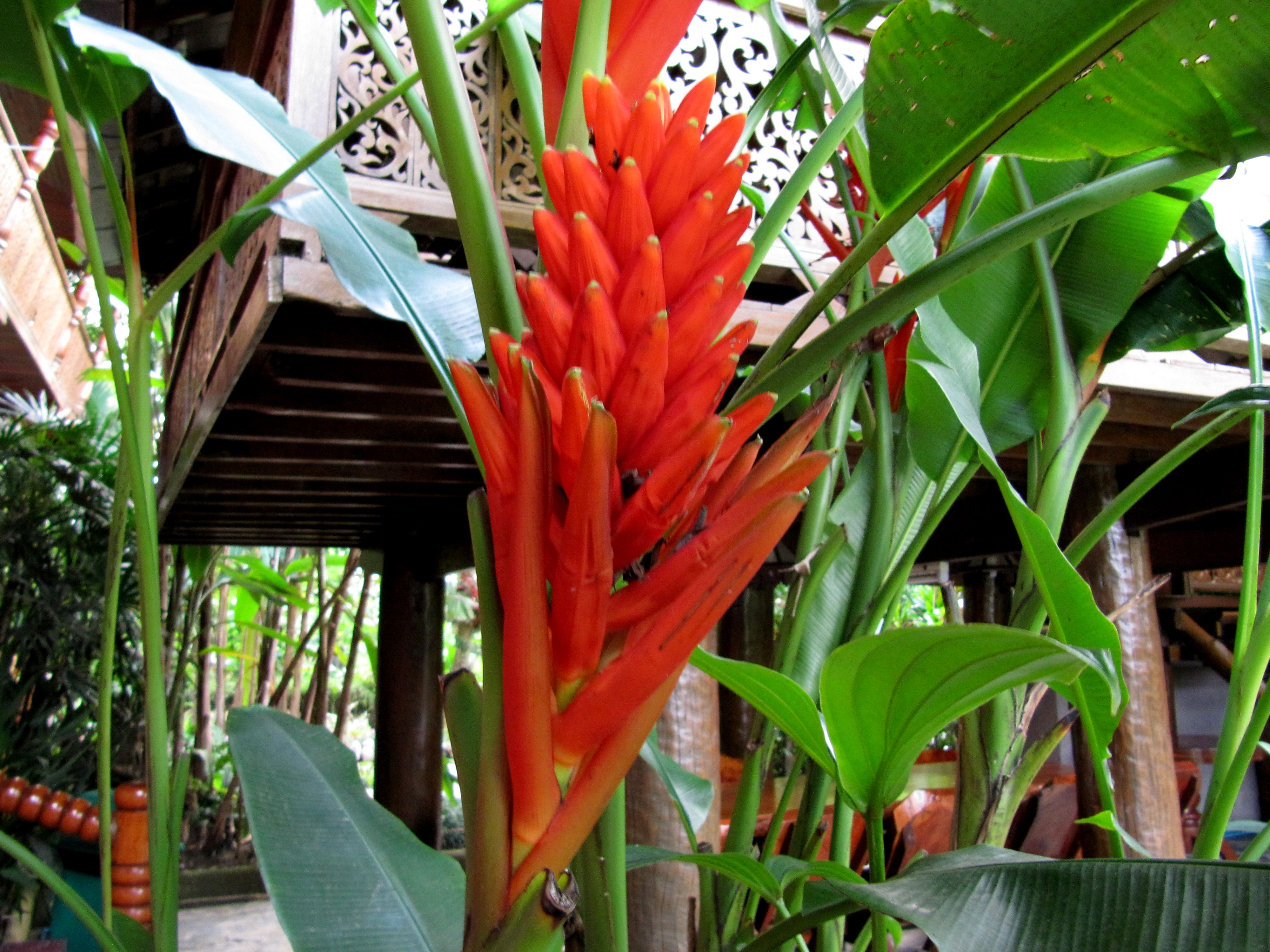 Red flower Thailand